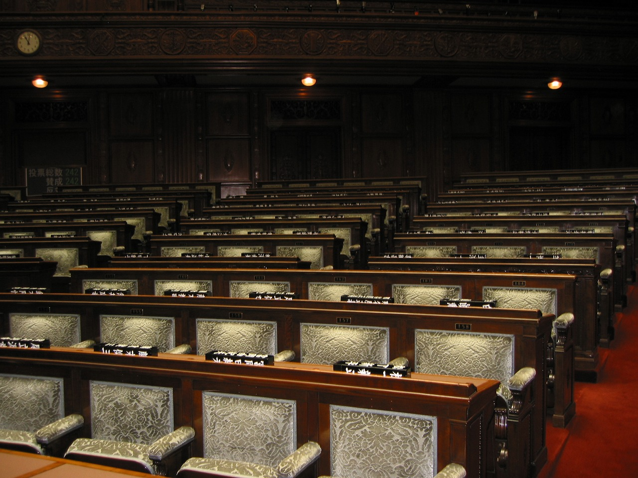 The House of Councillors, the upper house of the Diet 参議院本会議場